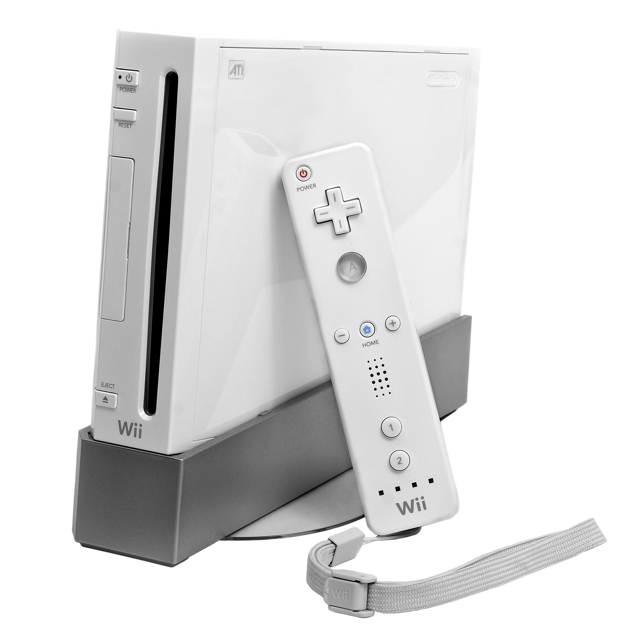 A re-upload of the file I had originally done, but higher quality